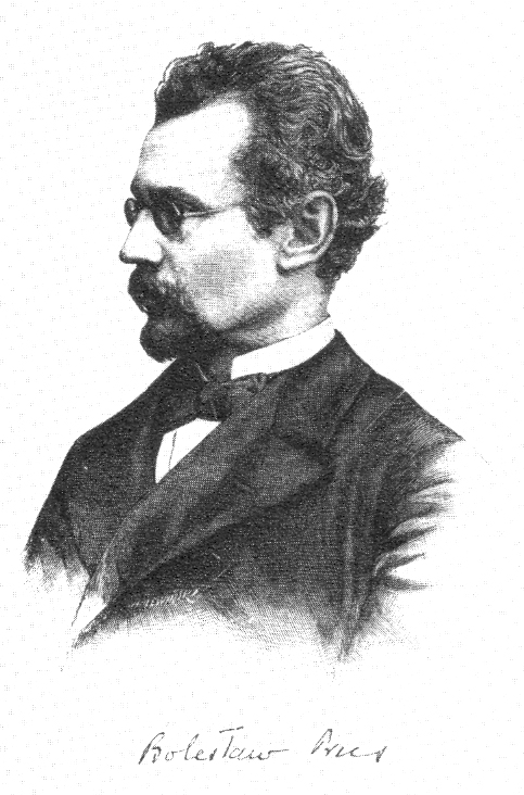 Picture of Bolesław Prus by Józef Holewiński included in the first edition of "Lalka", 1890.